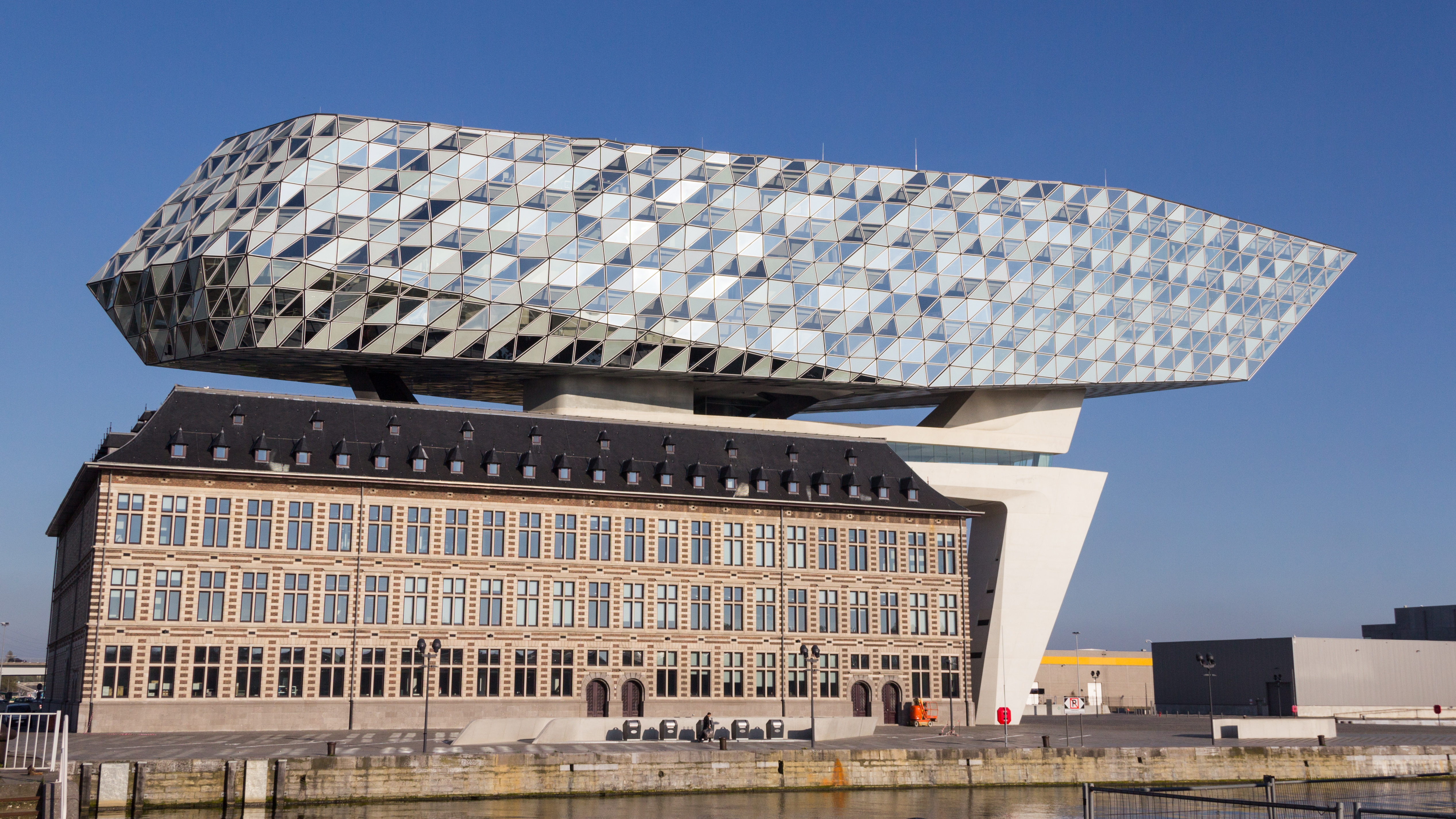 By Zaha Hadid Architects, 2016